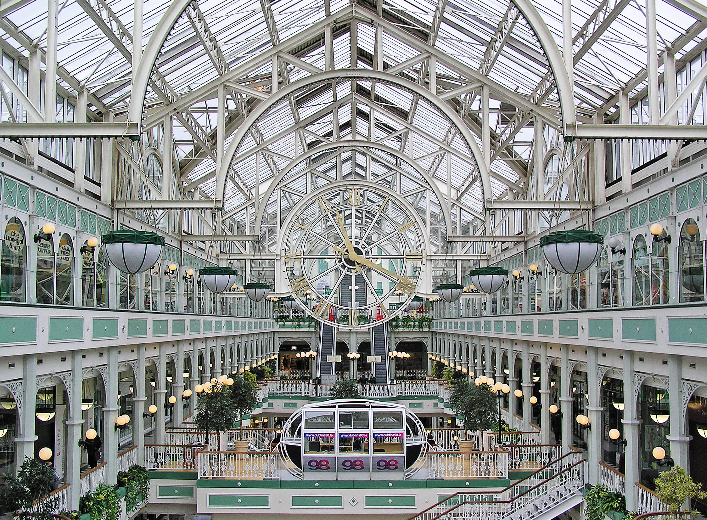 St. Stephens Green Shopping Centre (Interior), Dublin, Ireland